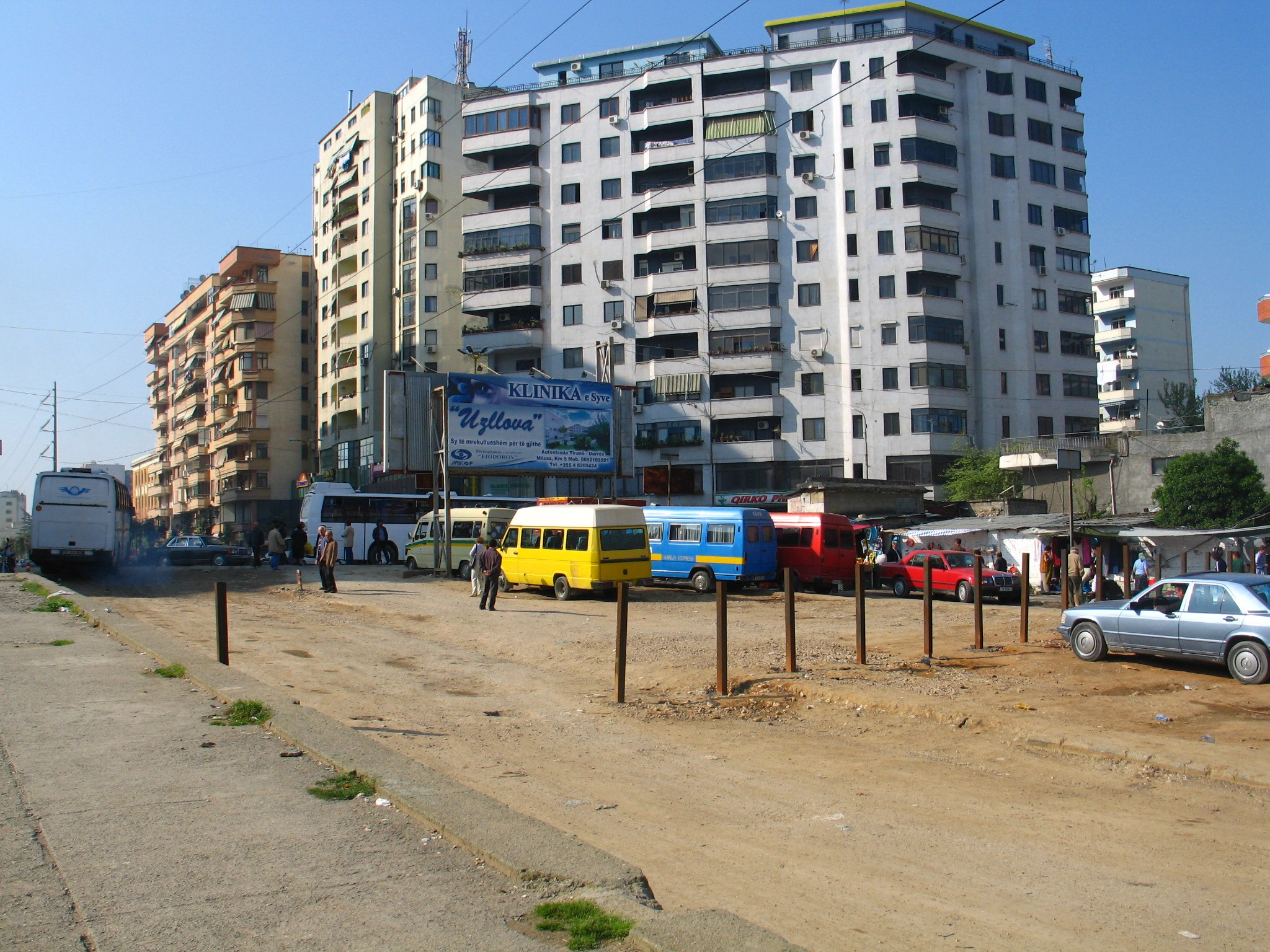 Tirana, capital of Albania